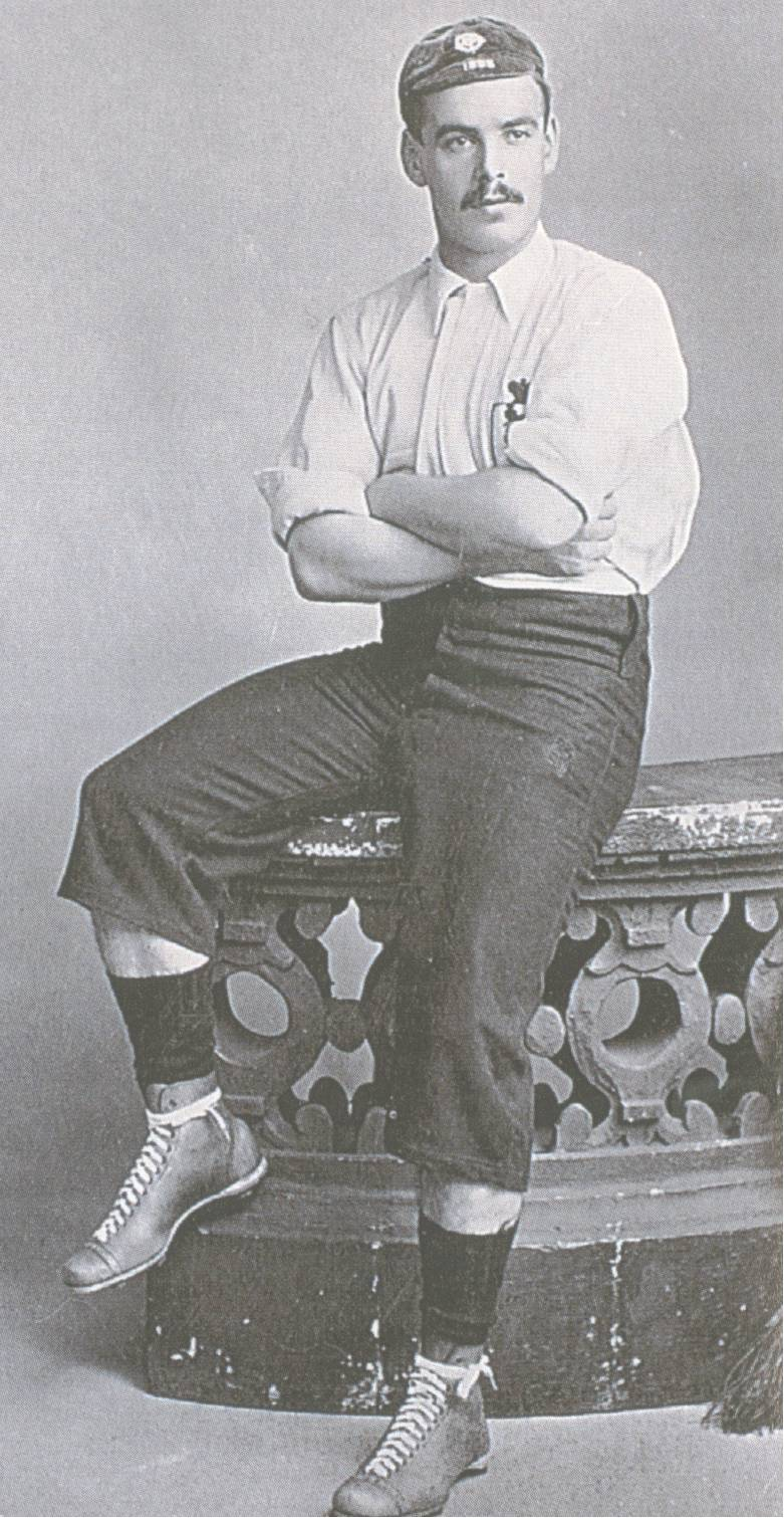 Image of Stephen Smith, photographed in 1895.